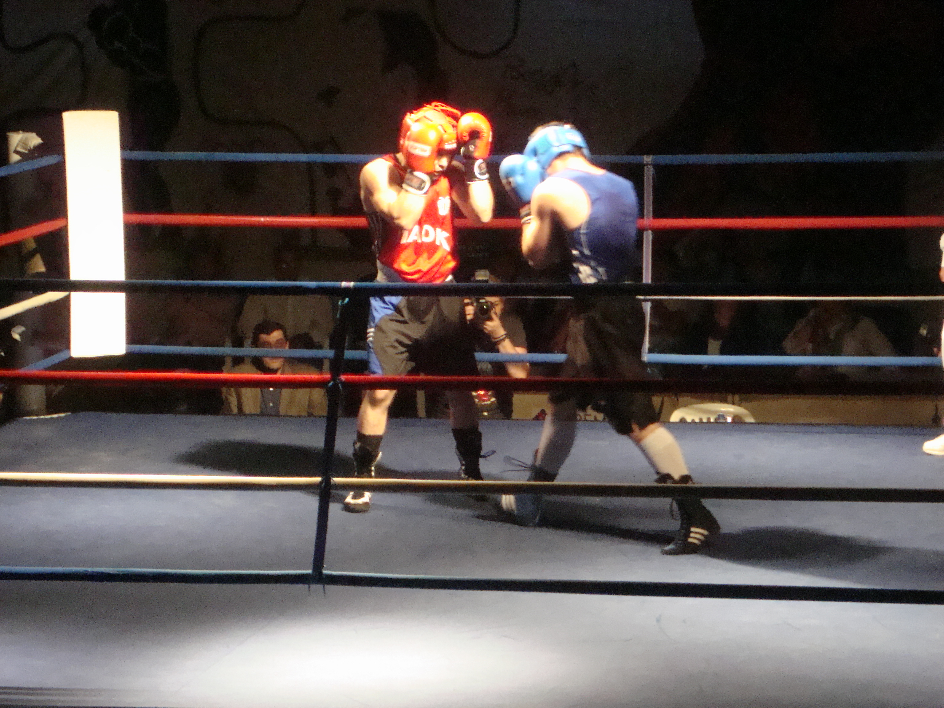 4th Boxing Gala "E. Mavropoulos" 2011 Kavadias (Panachaiki-blue) - Athanasiadis (PAOK-red) 3